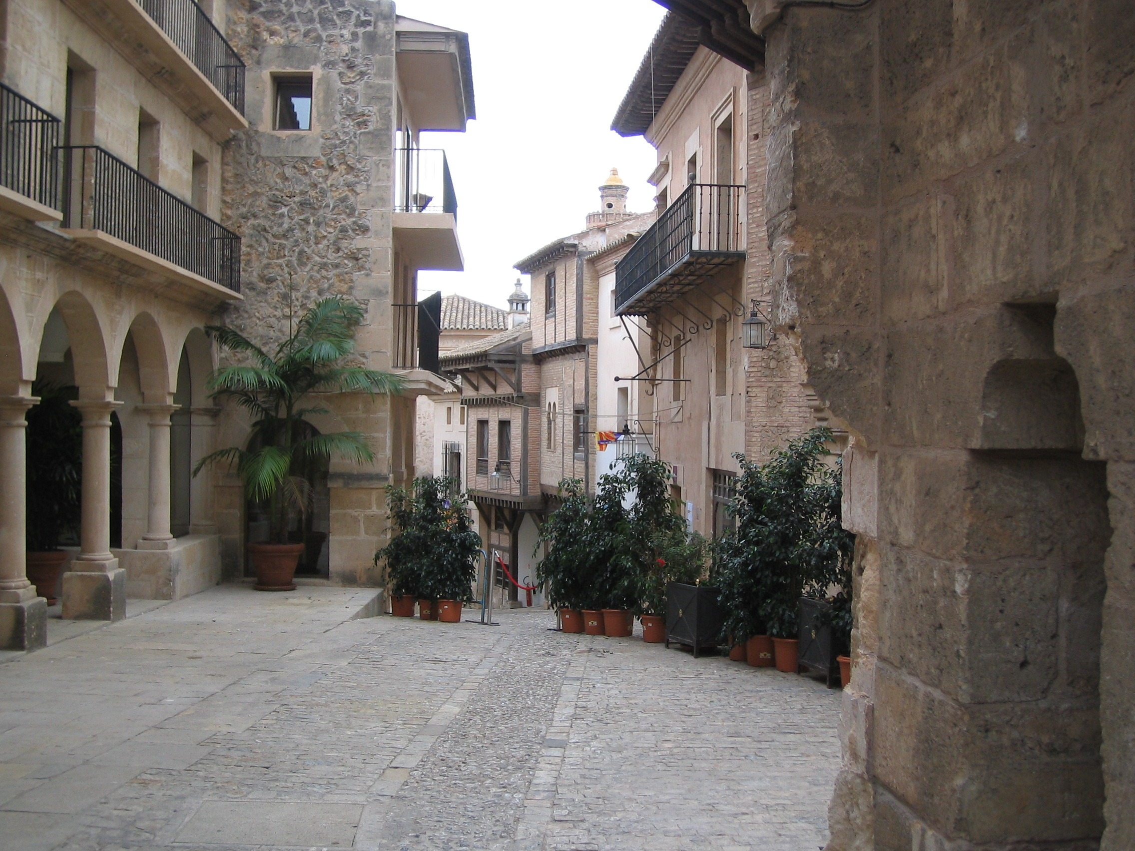 A tourist attraction called The spanish village(Pueblo Español) in mallorca, Spain.